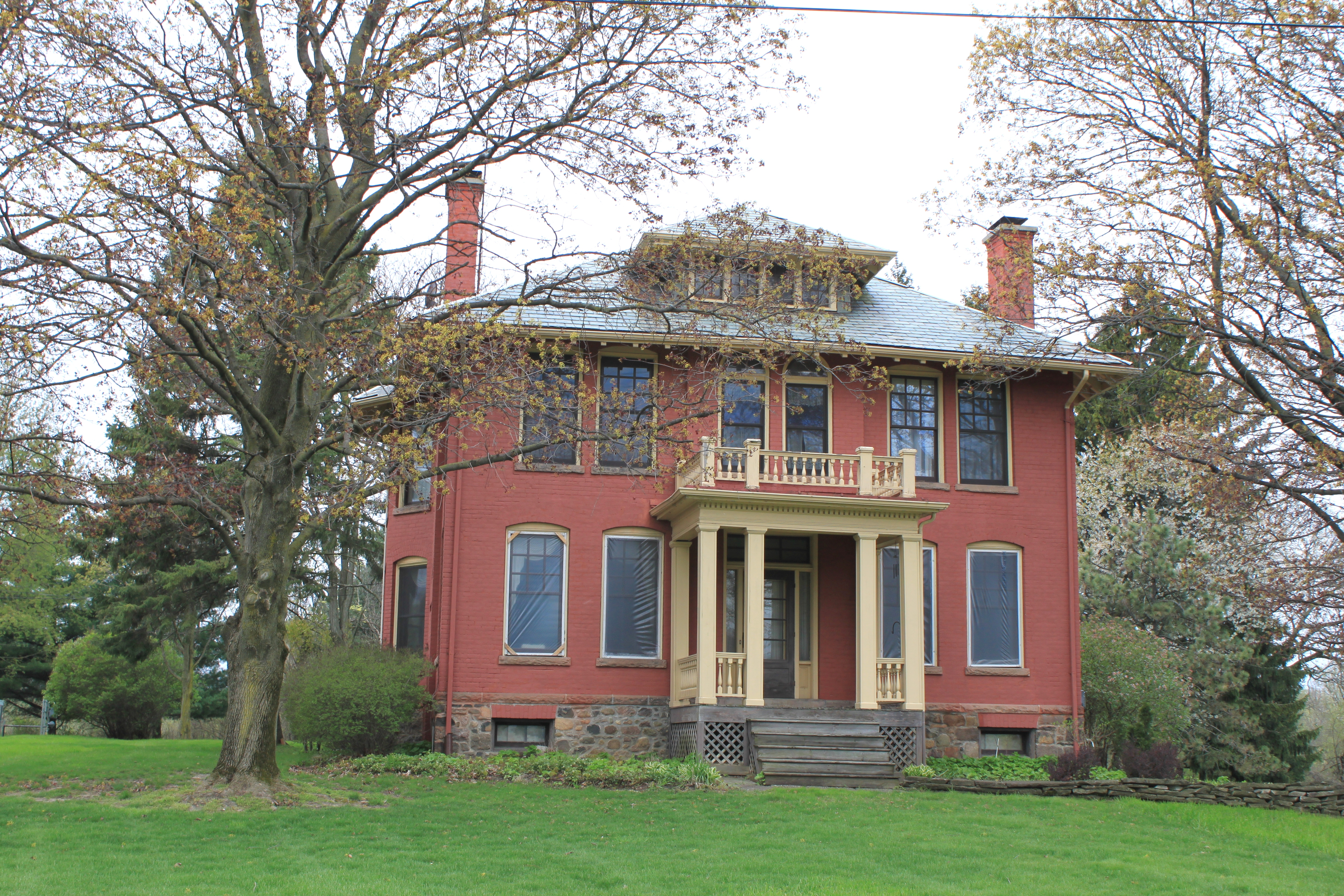 Old Saint Patrick Parish rectory, 5671 Whitmore Lake Road, Northfield Township (Ann Arbor), Michigan. The Old Saint Patrick Church is a Registered Michigan Historic Site. The rectory was constructed in 1890.